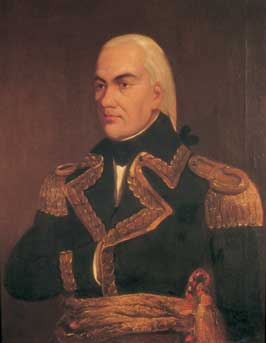 Portrait of General Francisco de Miranda